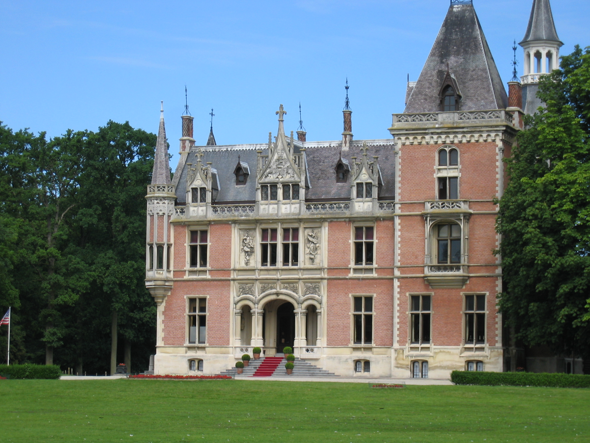 Castle Aertrycke in the city of Torhout, Belgium. Picture by Tim Bekaert (July 11, 2005)